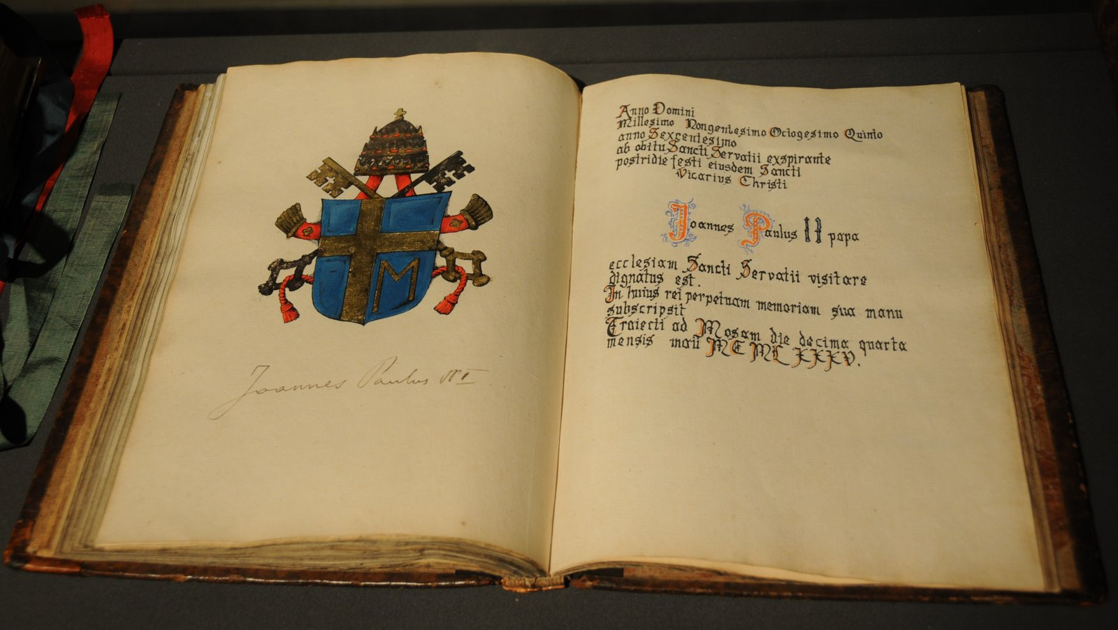 Guestbook in the Treasury of the Basilica of Saint Servatius. On this page: The signature of pope John Paul II, who visited the church on the 10th of April, 1985.